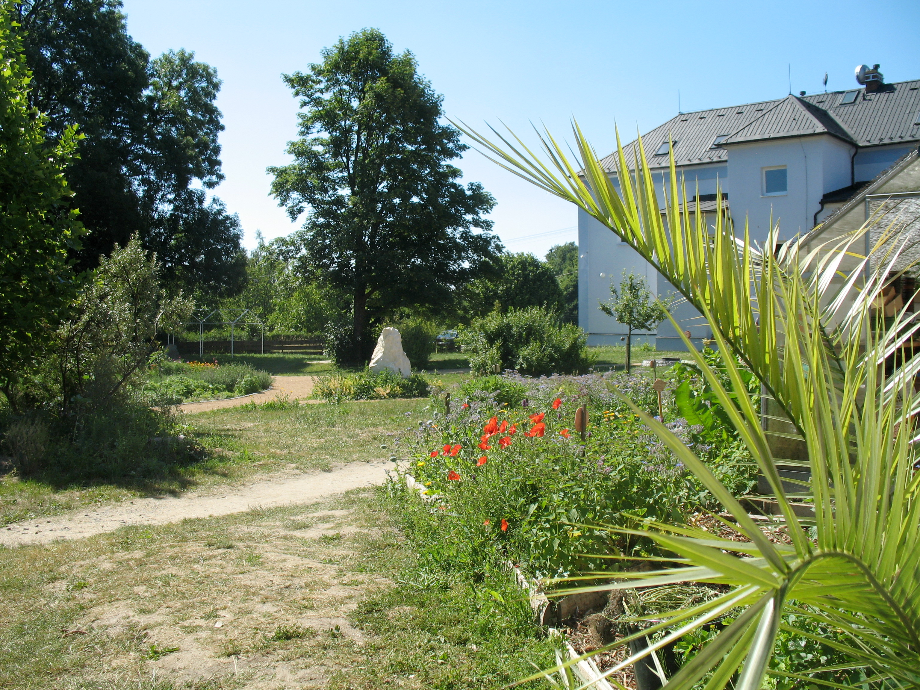 Herb Garden in Vlčí Hora near Krásná Lípa, Northern Bohemia, Czech Republic